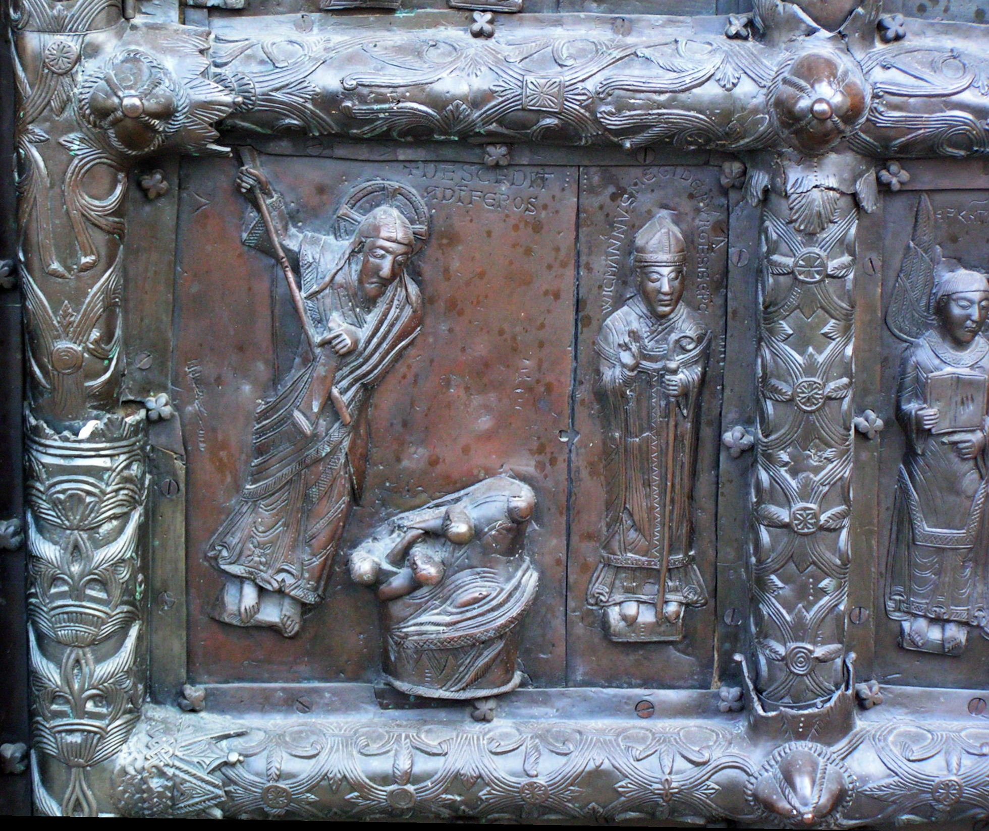 Saint Sophia Cathedral in Novgorod - gates, 12th century